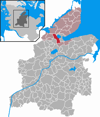 Locator maps of municipalities in Schleswig-Holstein - District Rendsburg-Eckernförde